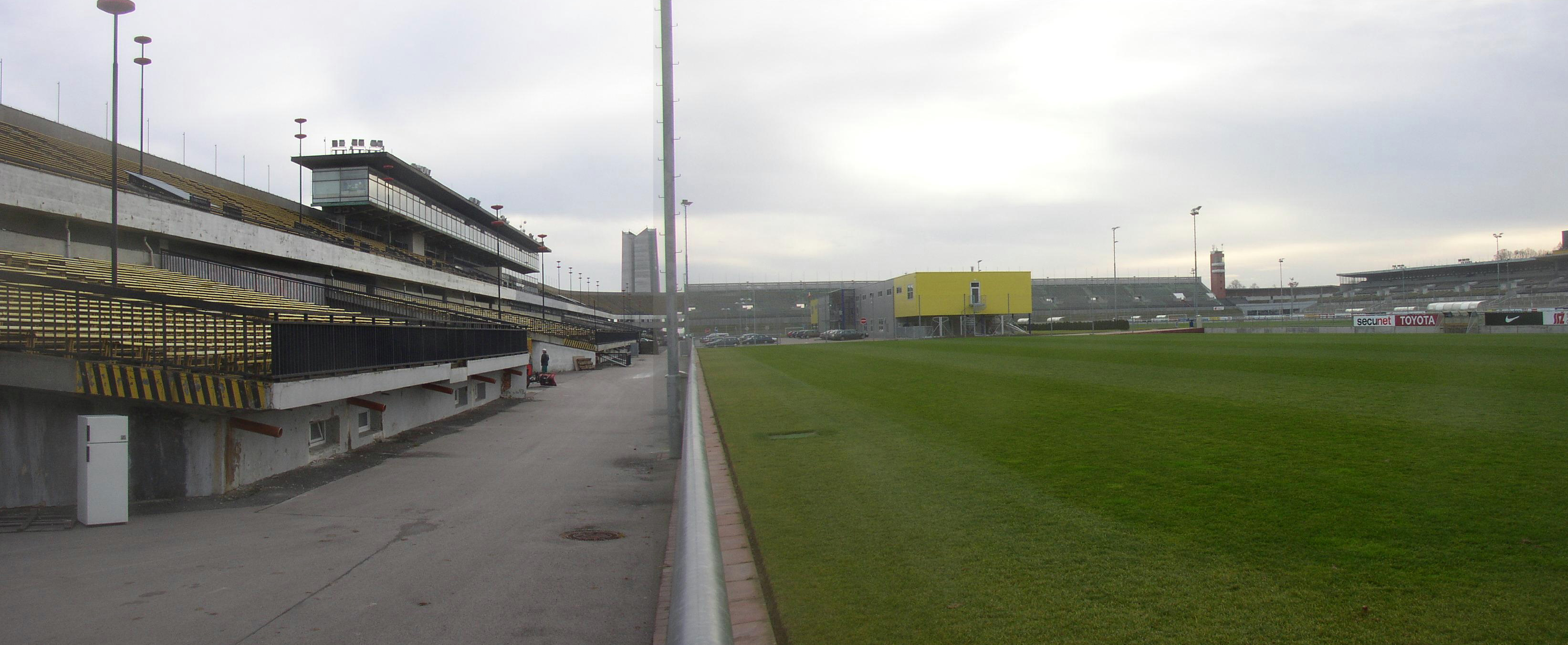 Interior of Strahov Stadium in Prague, Czech Republic. A view from northeast corner.